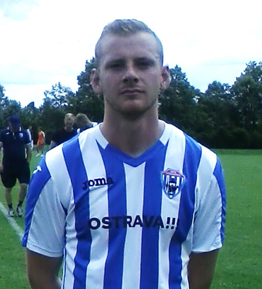 Tim DiBisceglie with FK Vitkovice